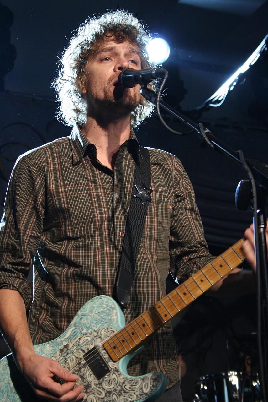 American guitarist and singer Brendan Benson in October 2008.